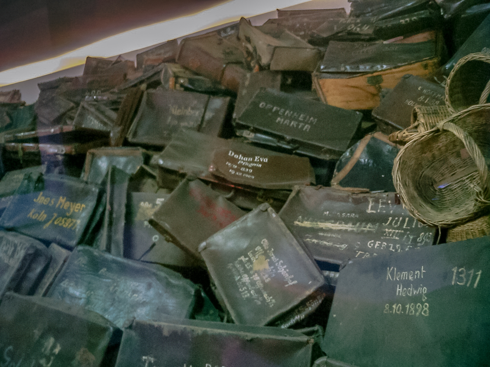 Auschwitz concentration camp, Poland